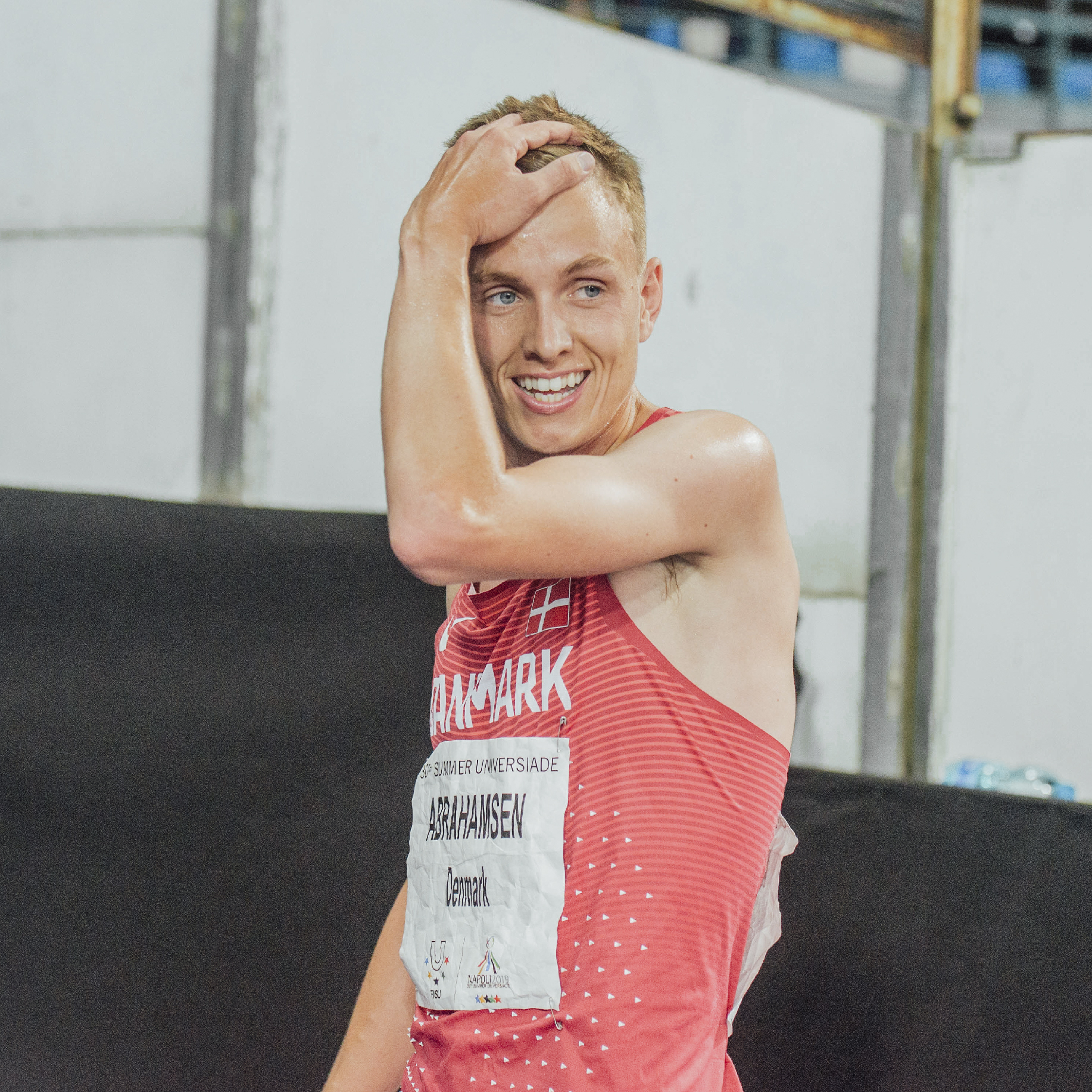 Jakob Dybdal Abrahamsen